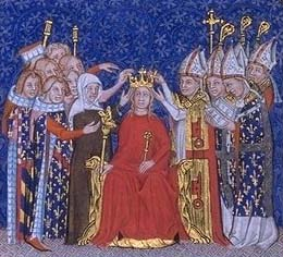 Coronation of Jeanne of Bourbon, consort of Charles V (1364)